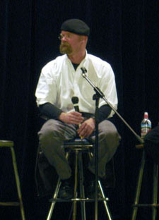 Jamie Hyneman at the Encinal High School Benefit (Jamie's wife works as a science teacher at that school.)